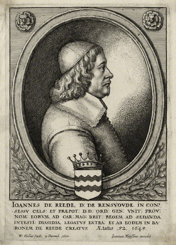 Portrait of Johan van Reede van Renswouden (English John de Reede, 1st Baron Reede) (1593–1683), Dutch diplomat and politician.